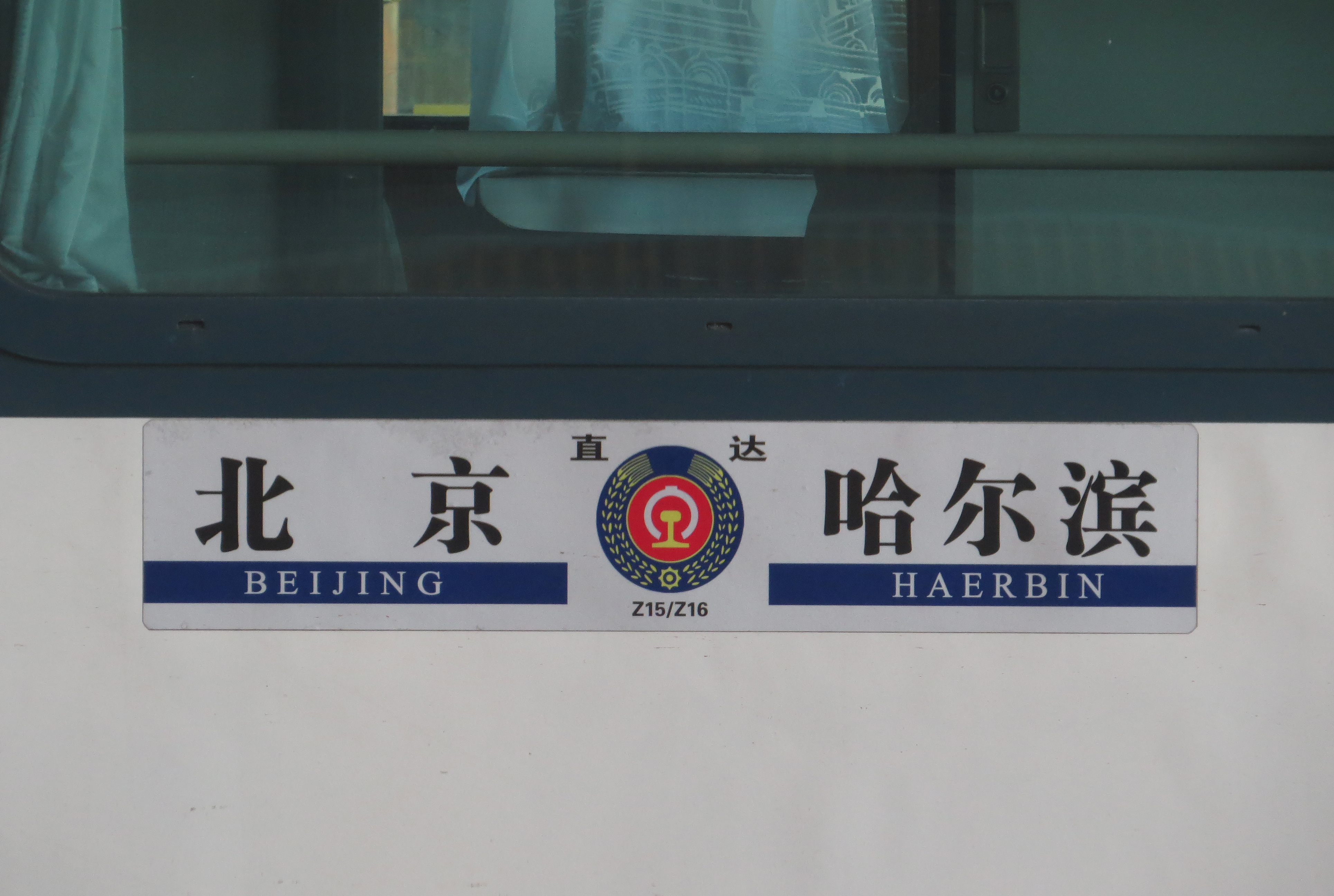 Nice BSps.